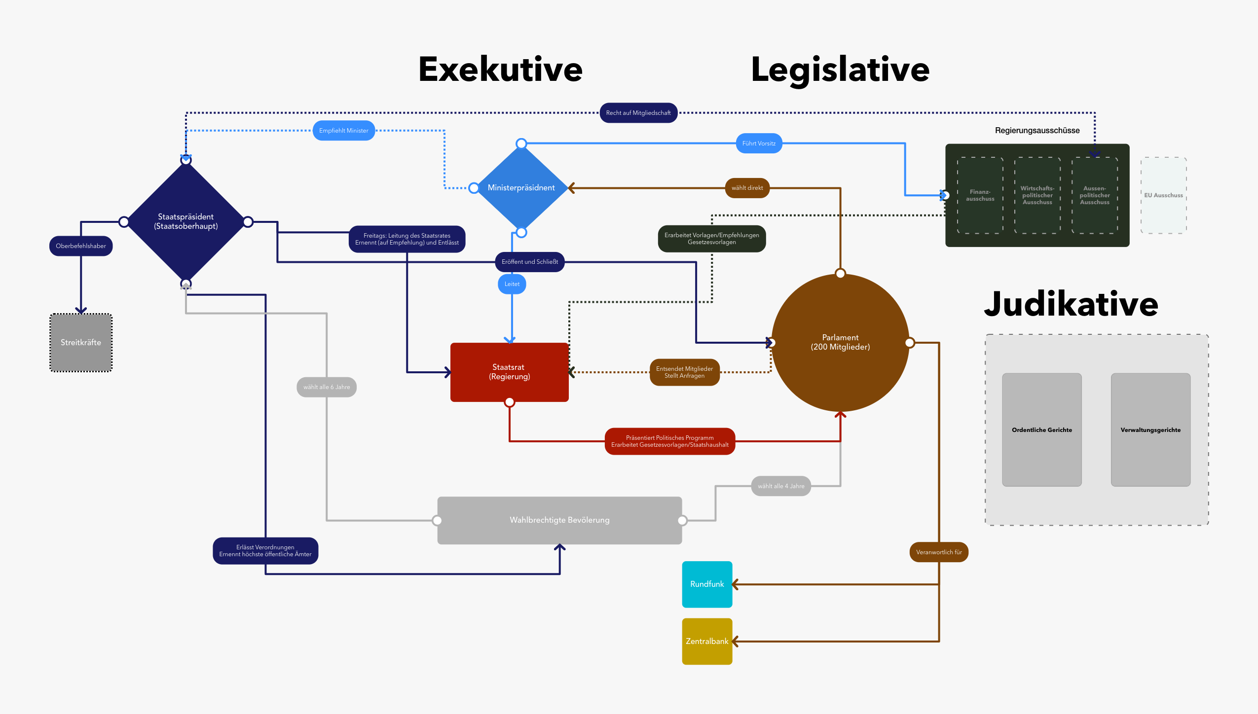 Simple presentation of the interdependencies and areas of responsibility of the political system and the government of Finland